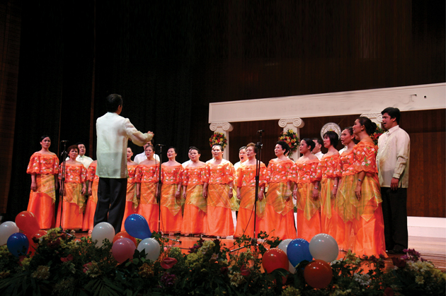 scc pic